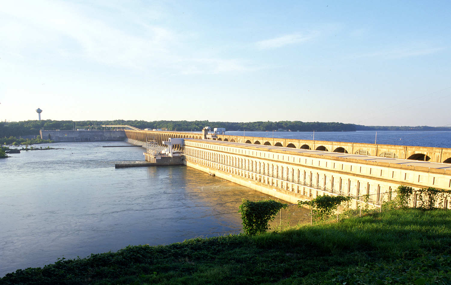 Wilson Dam